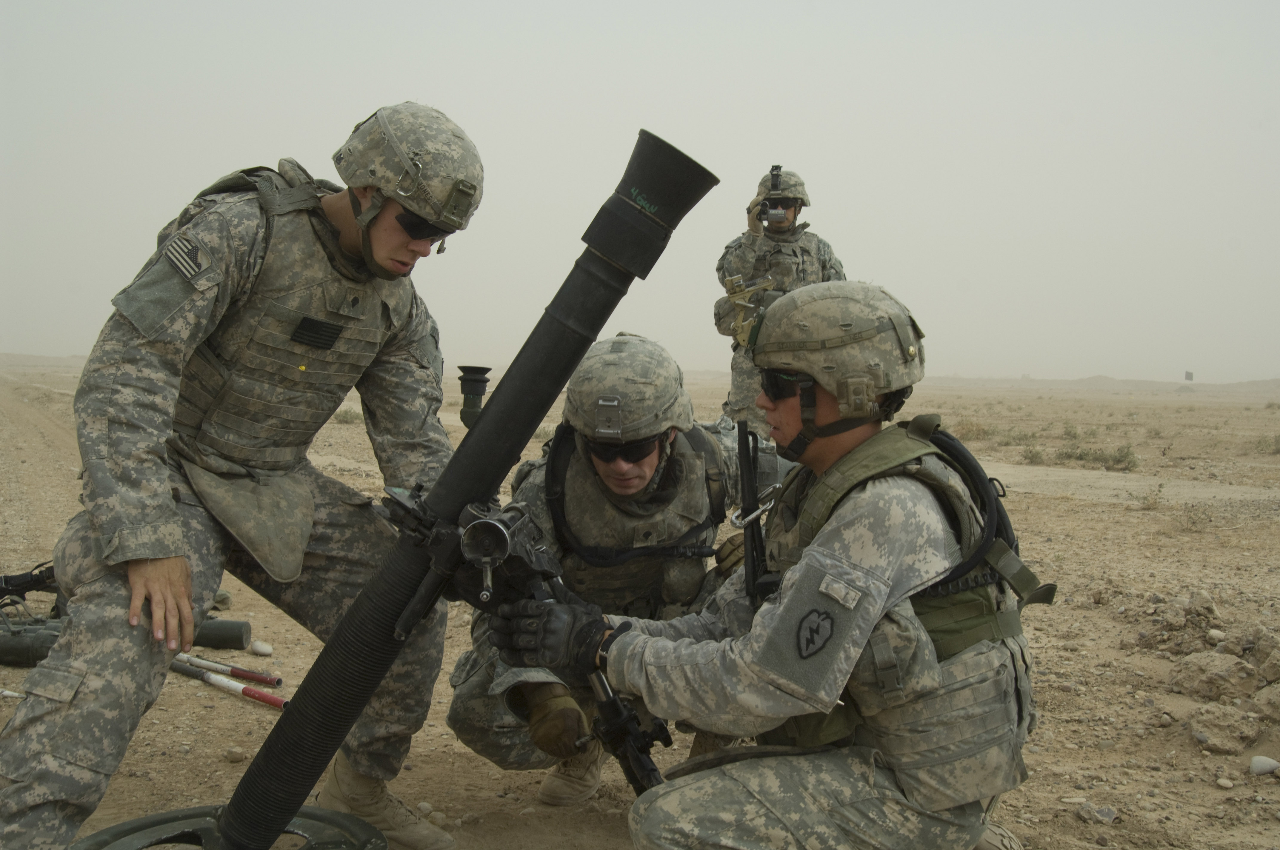 U.S. Army soldiers from the 3rd Battalion, 21st Infantry Regiment set up an 81 mm mortar system during a live-fire demonstration for the Iraqi Army's Light Battalion, 20th Brigade, 5th Division at Forward Operating Base Normandy in Diyala, Iraq, on June 28, 2009.